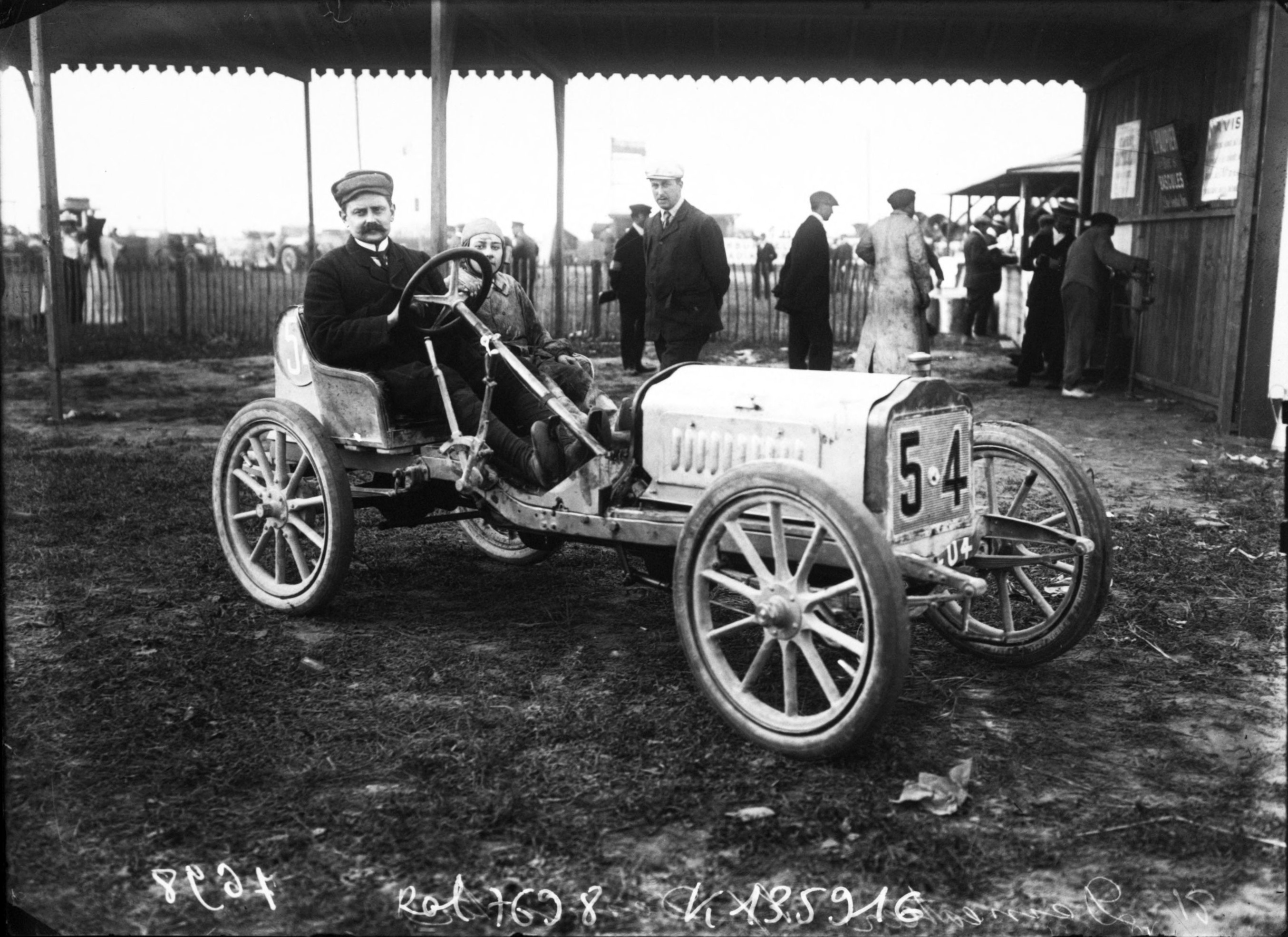 H. Demeester in his Demeester at the 1908 Grand Prix des Voiturettes at Dieppe.